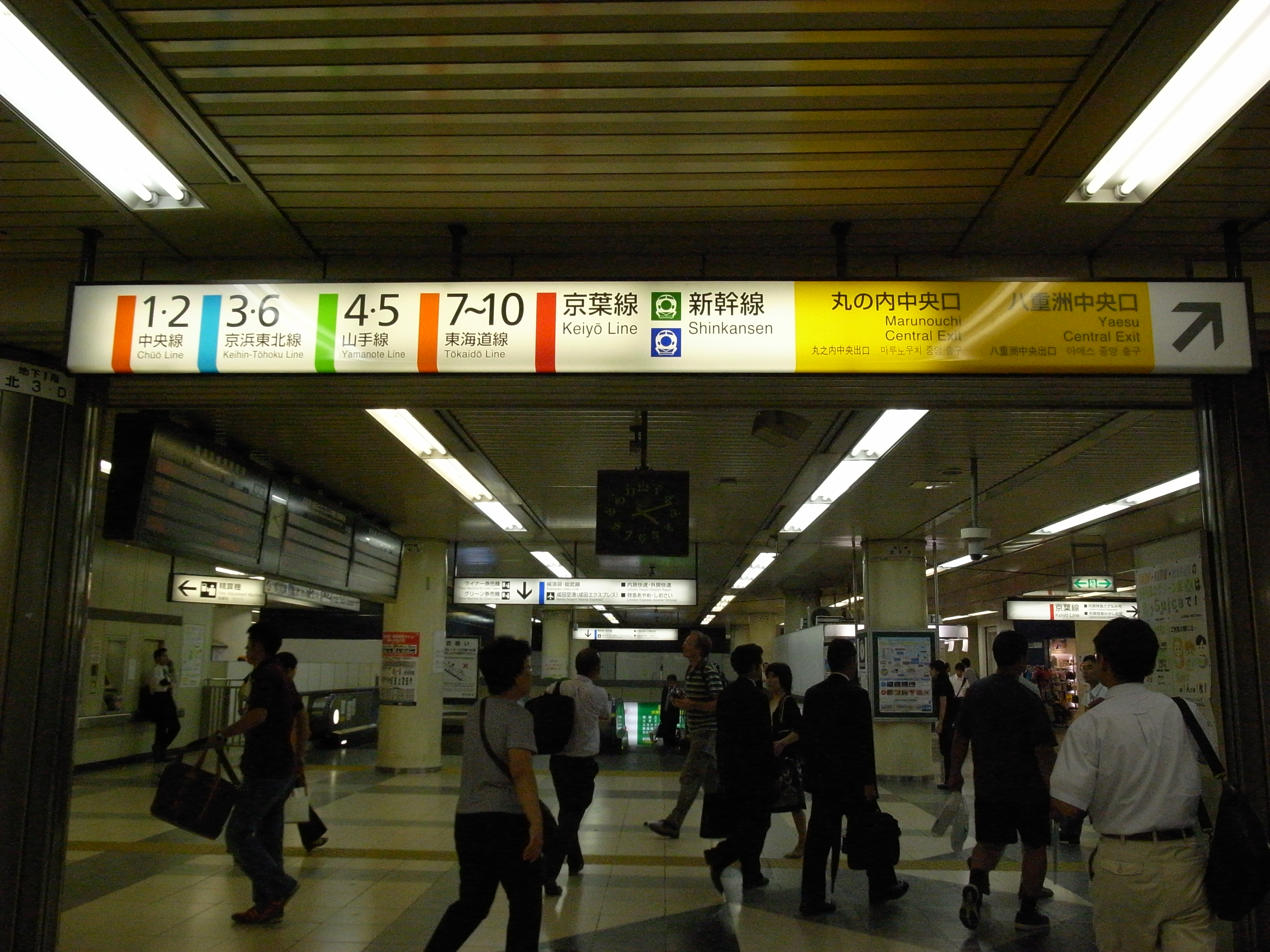 Signboard at Marunouchi Central Gate in Tokyo Sta.